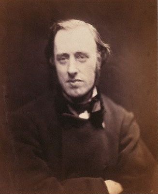 William Edward Hartpole Lecky (* 1838; † 1903), British historian